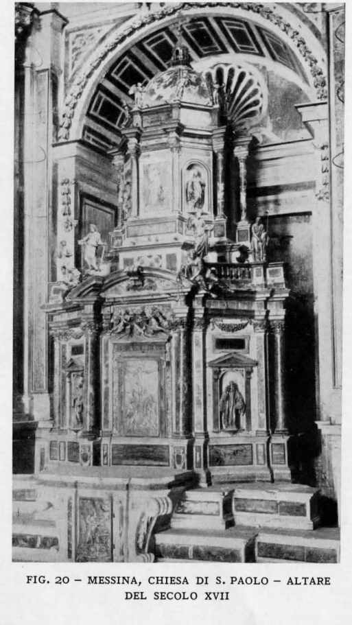 Messina, chiesa di San Paolo, altare del secolo XVII, Guarino Guarini